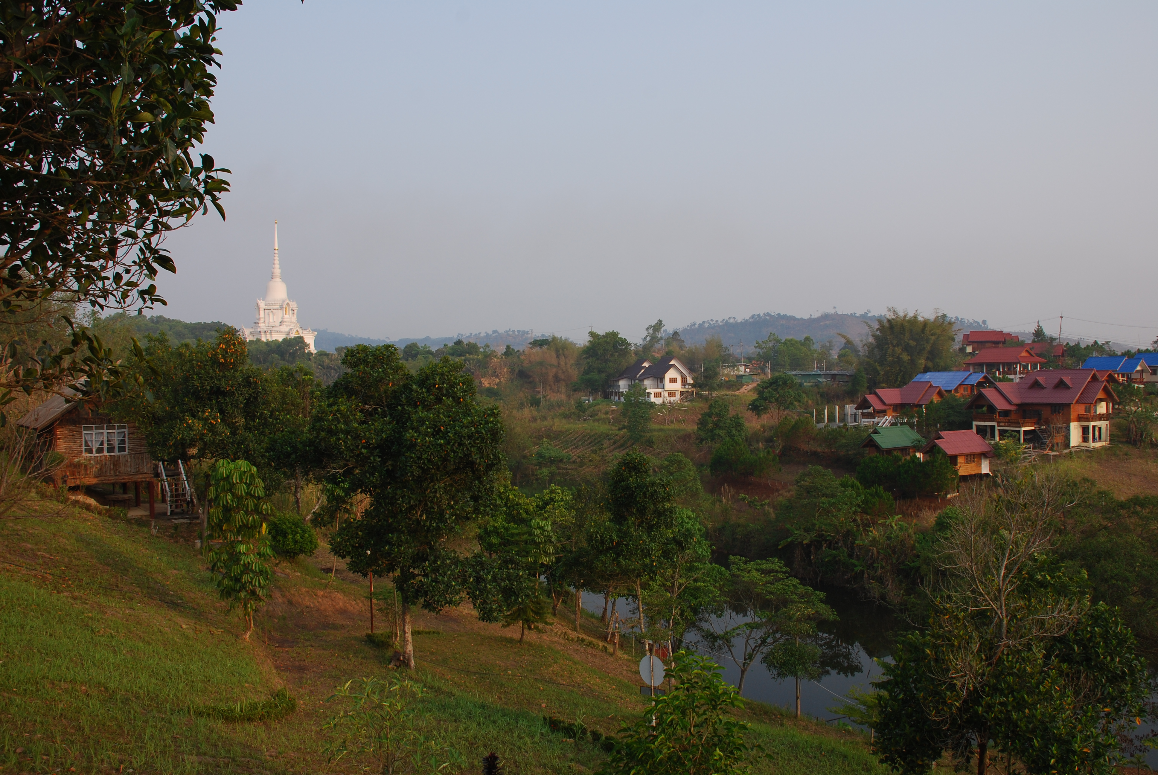 Buddhist temple in Khao Kho (Phetchabun province, Thailand)